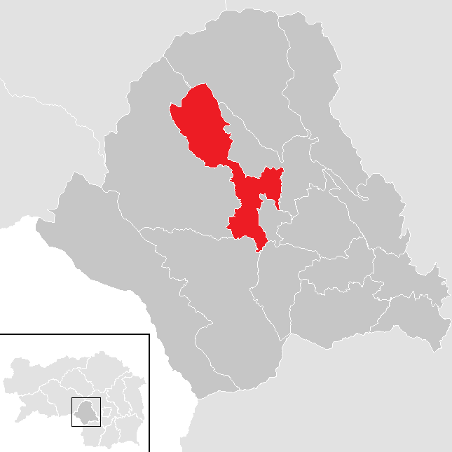 district Voitsberg